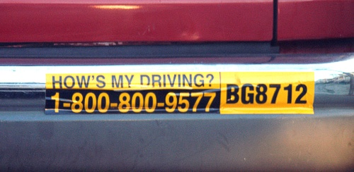 A typical bumper sticker used by employers in the United States to enable drivers to give them feedback on the driving performance of their employees. Photographed by user Coolcaesar in Redwood City, California, on October 12, en:2005.